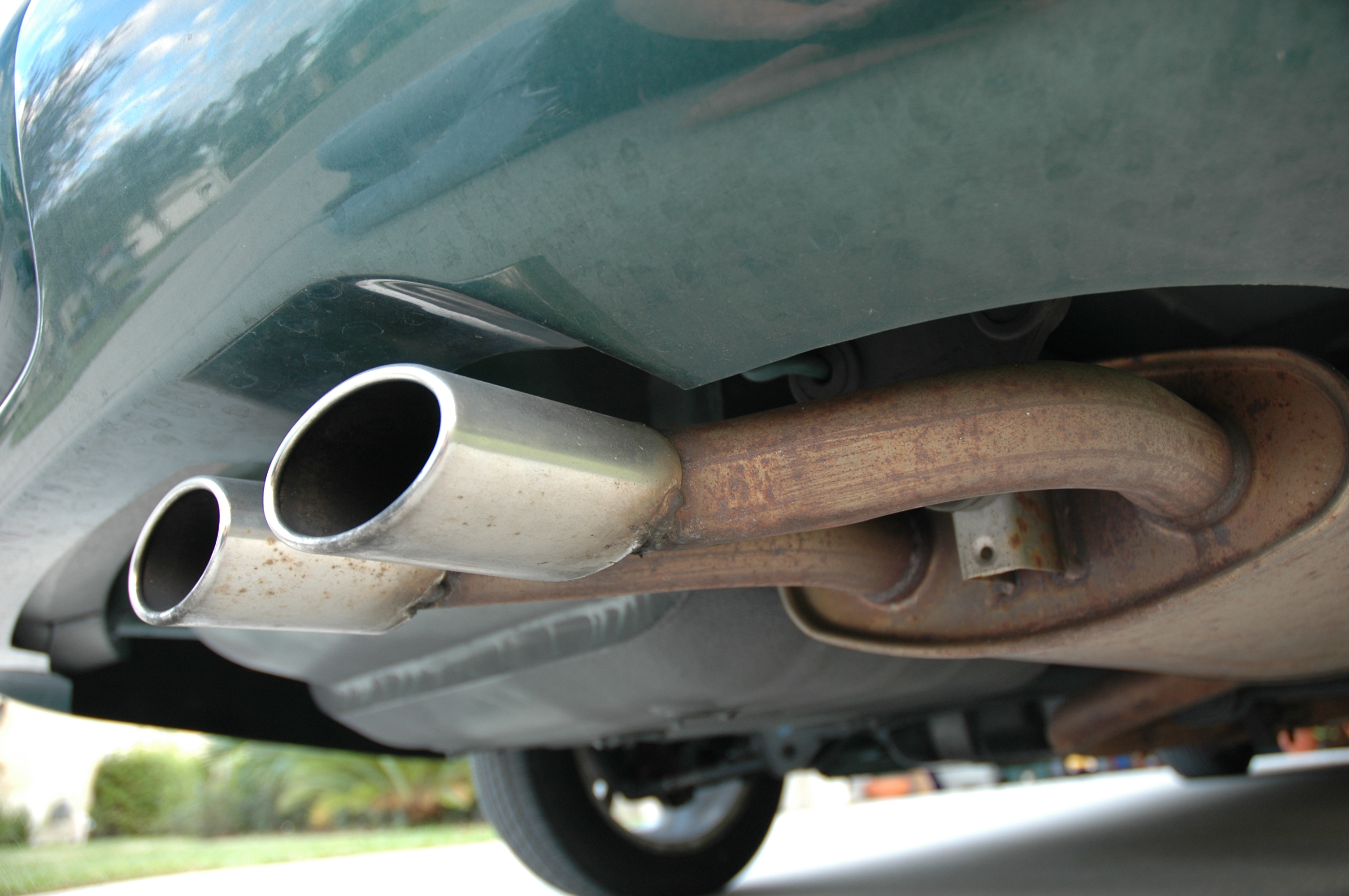 Author: Myself (User:Steevven1) Originally hosted on